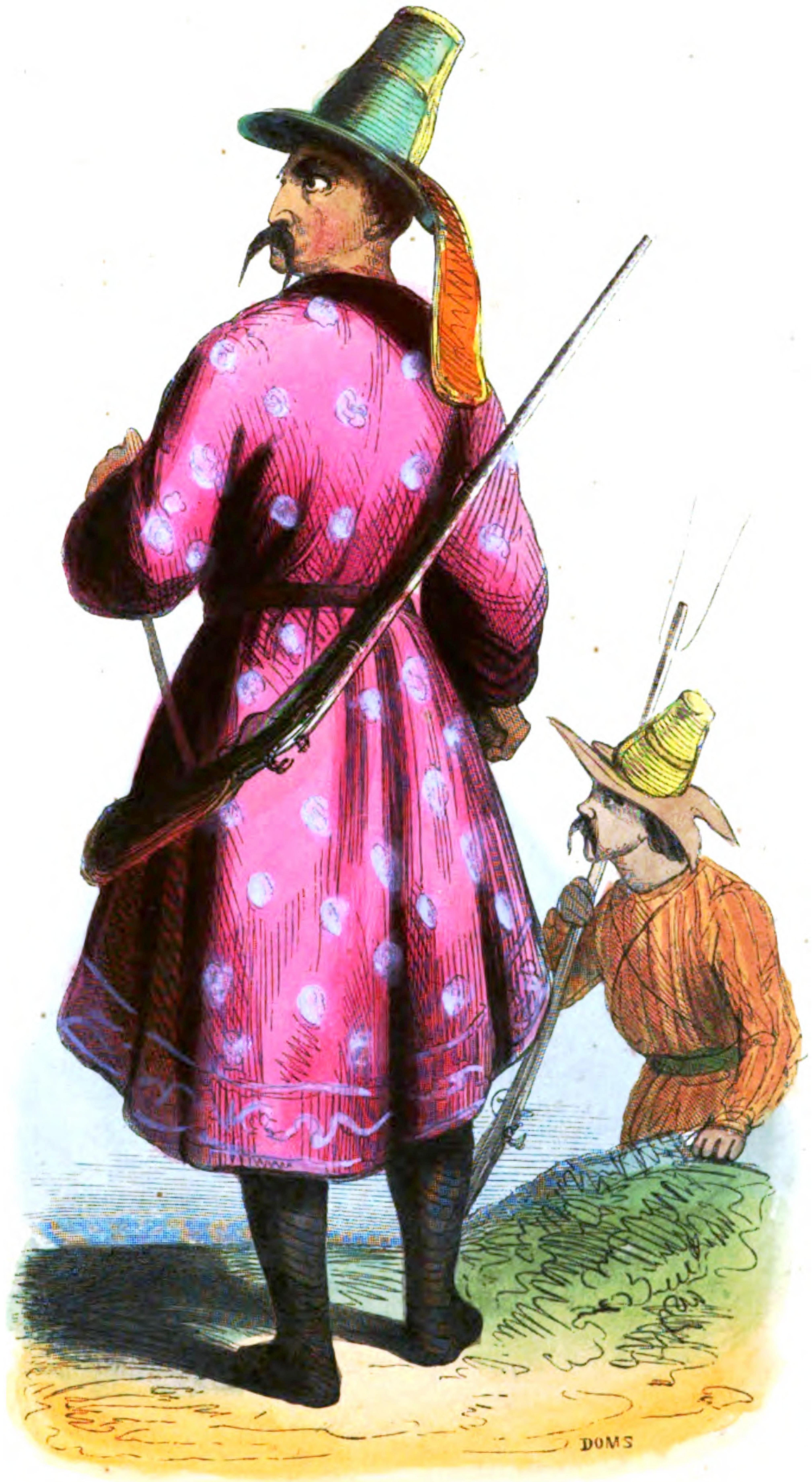 Auguste Wahlen, Moeurs, usages et costumes de tous les peuples du monde, Volume 1. Publisher La Librairie historique-artistique, 1843